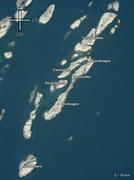 Map over Sandsundvaer.